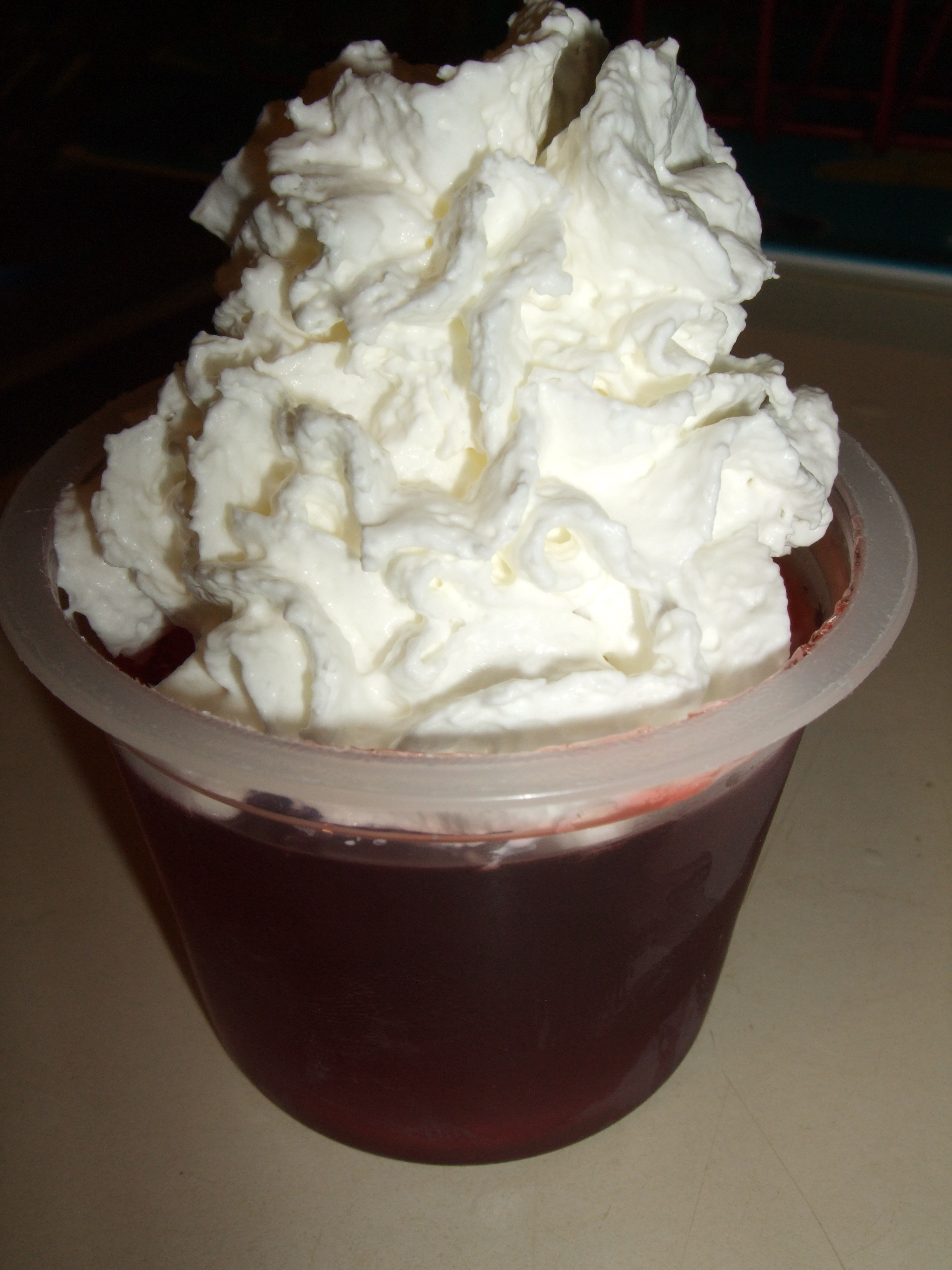 Sugar-Free Raspberry Jell-O with Reddi Wip topping. YUM!